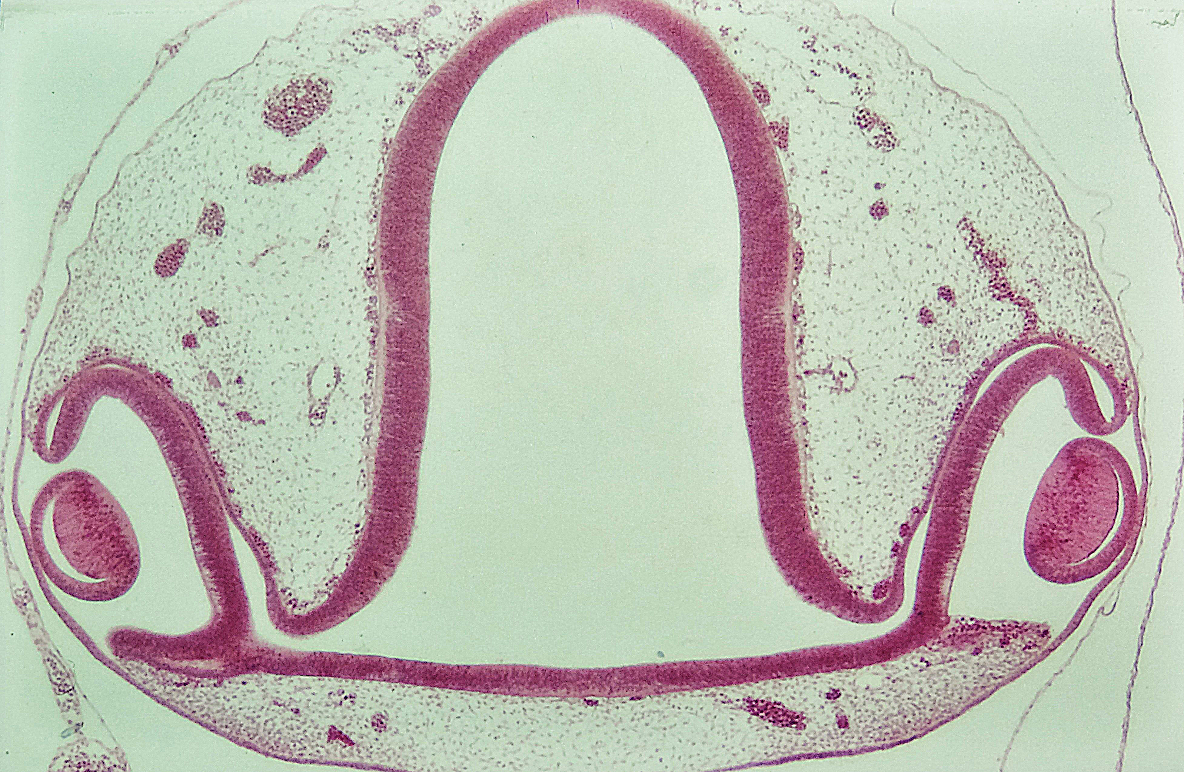 Light microscopic section through the brain vesicle and the optic cup with lens systems. Chicken embryo, hematoxylin-eosin staining.